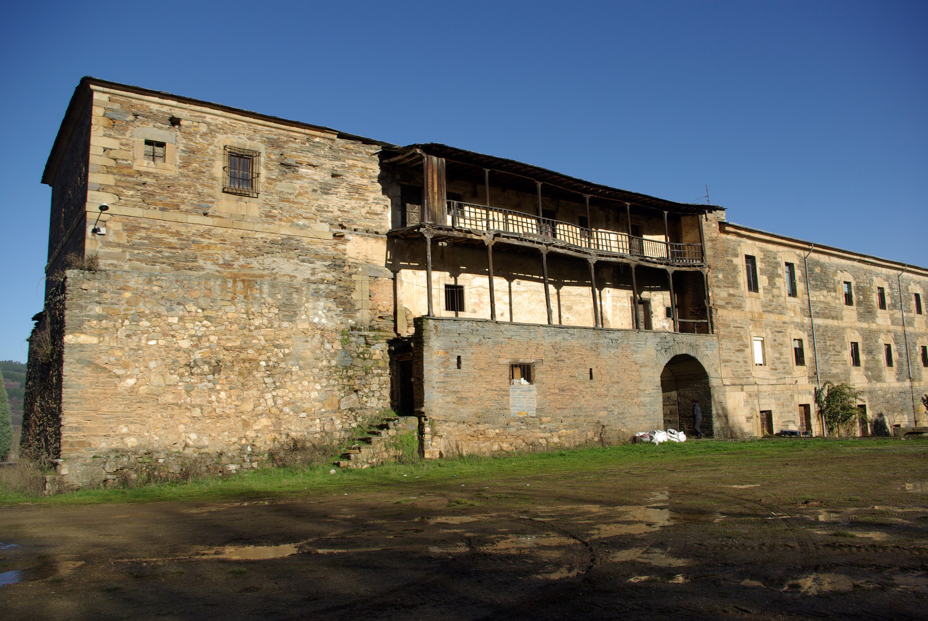 Saint Andrew of Espinareda Abbey in Vega de Espinareda (León, Spain). Southern view of monastery.